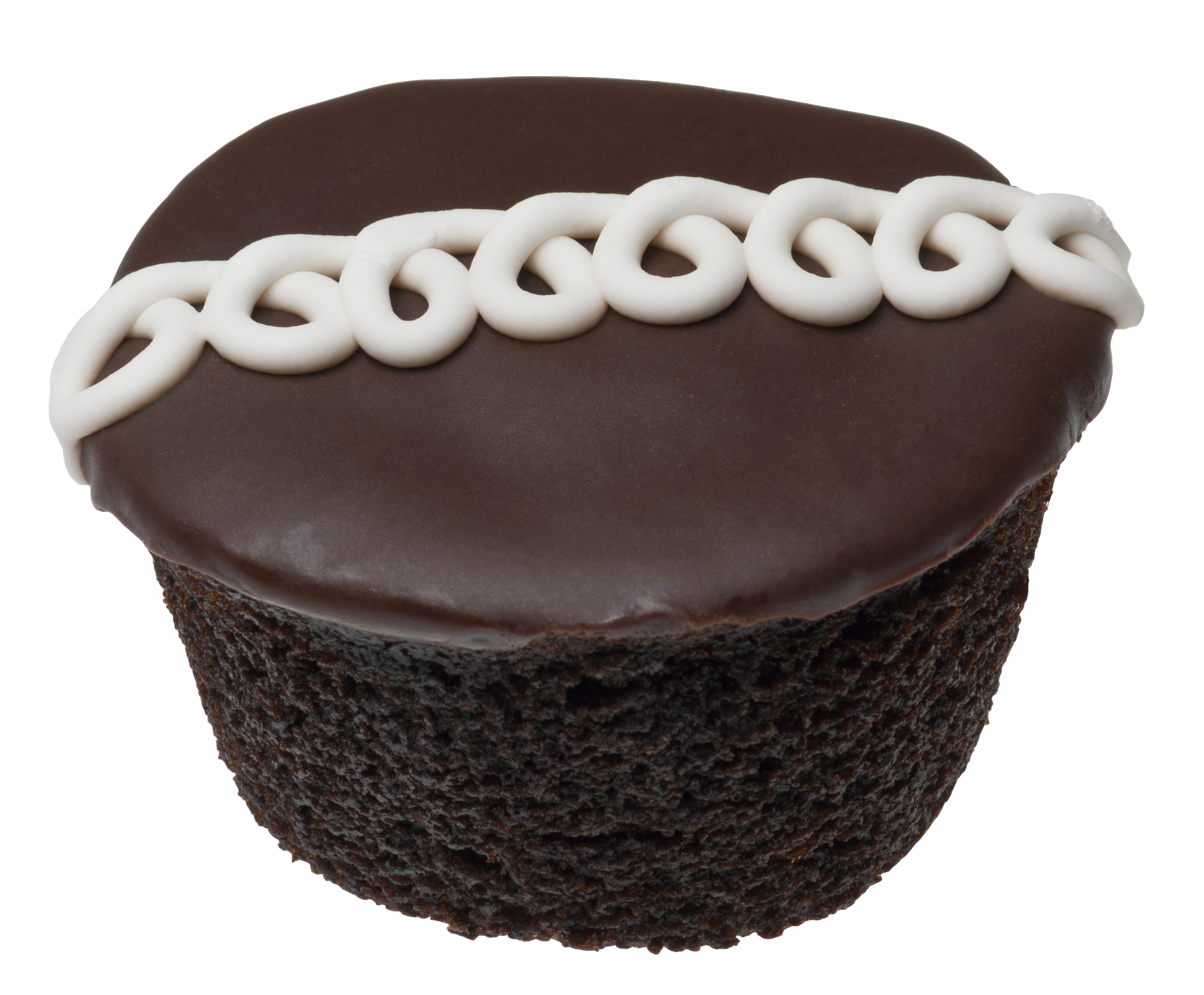 A Hostess CupCake, shown whole.